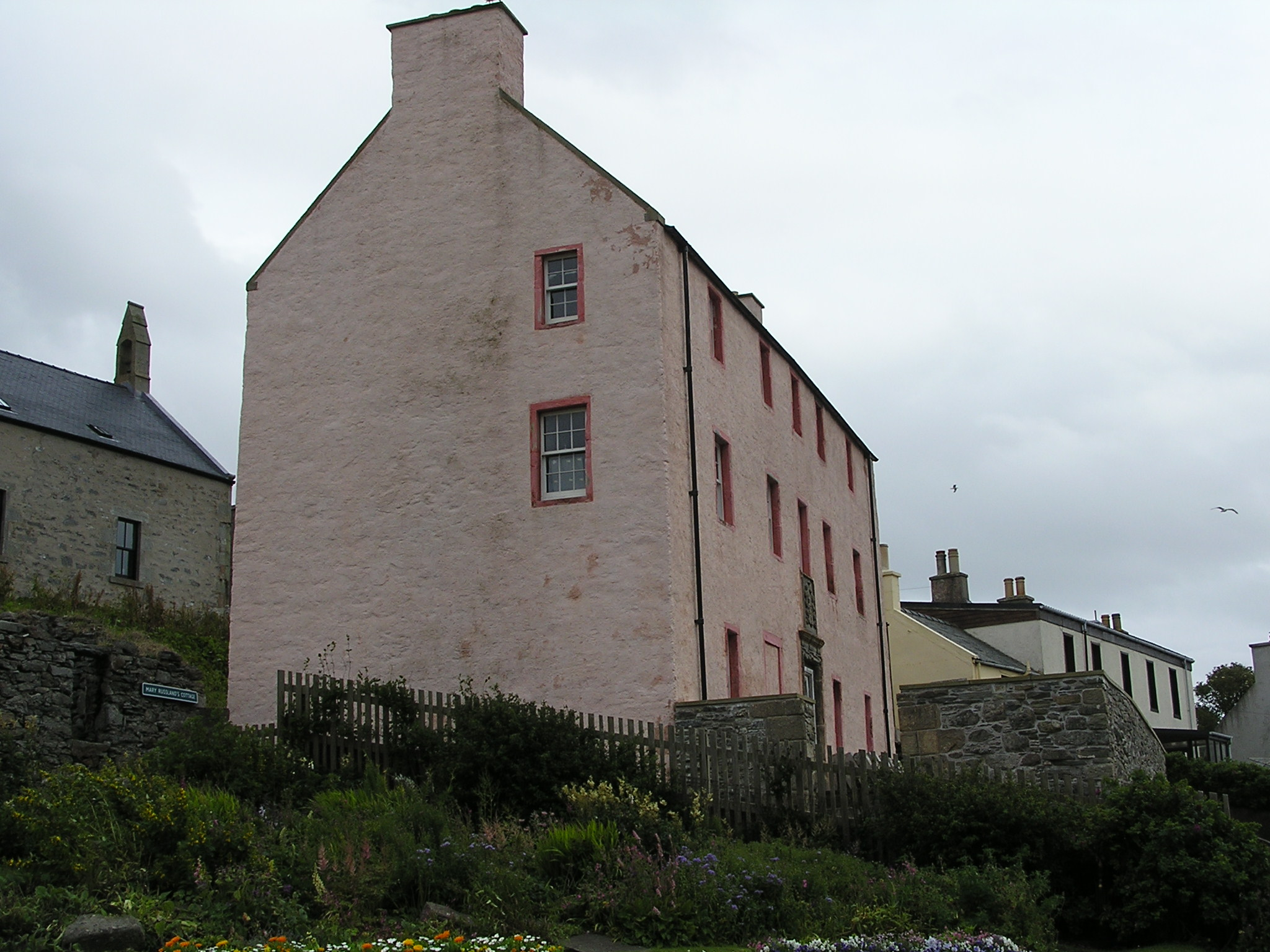 Scalloway Haa